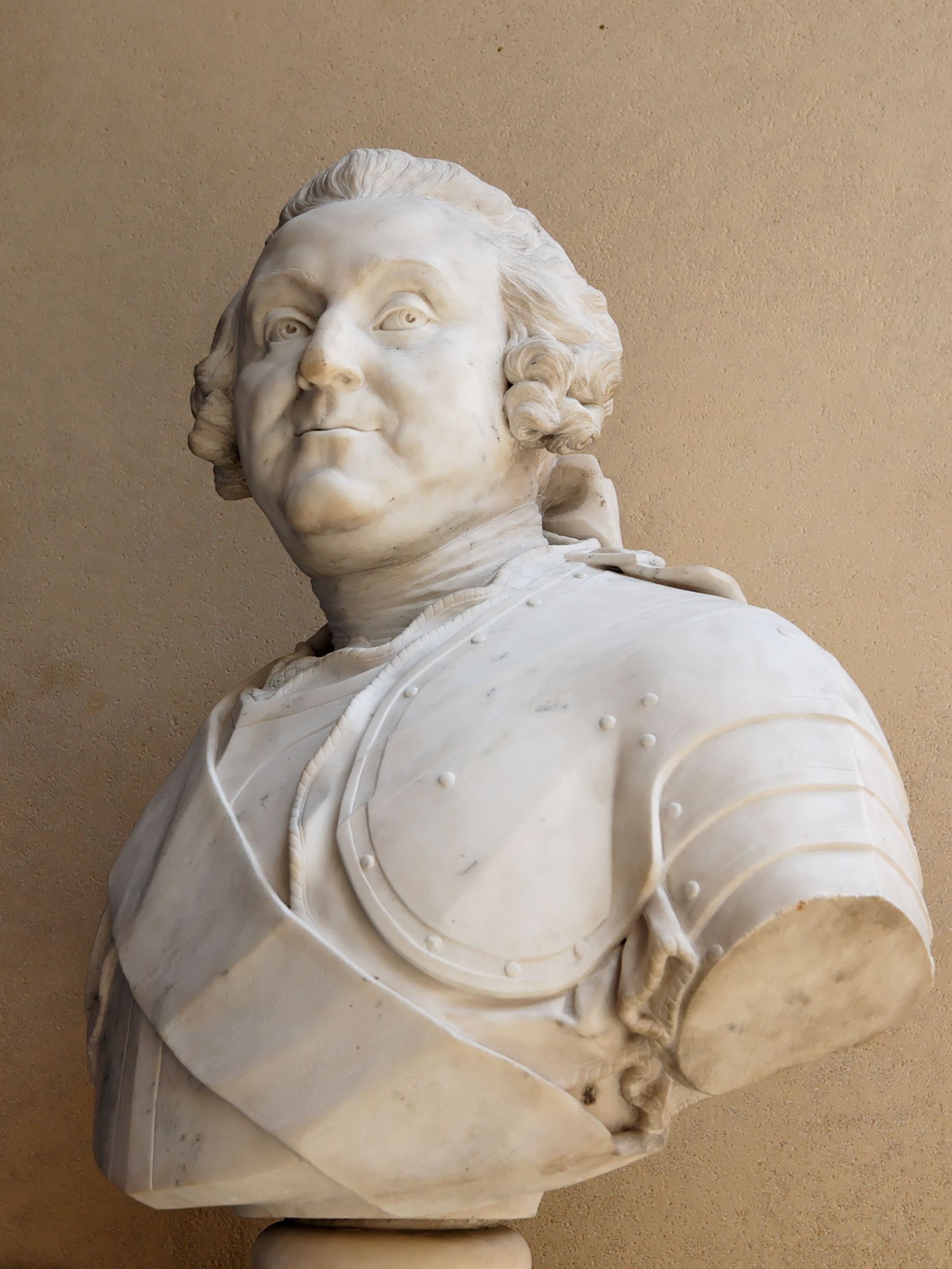 A terracotta model (now in the Museum of Fine Arts of Angers) was exhibited at the Salon of 1750.